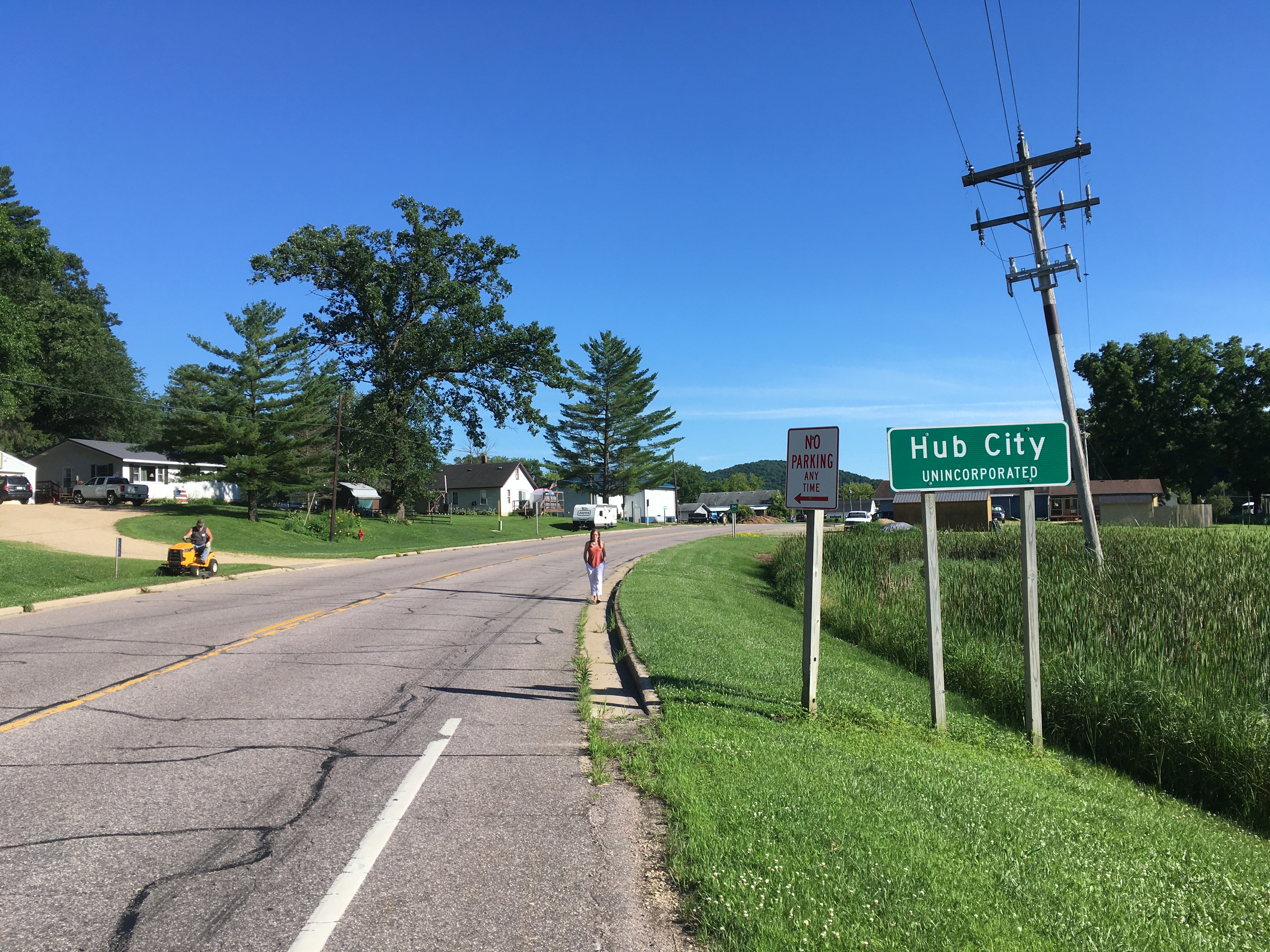 Hub City, Wisconsin, facing south along Hwy 80, July 2020